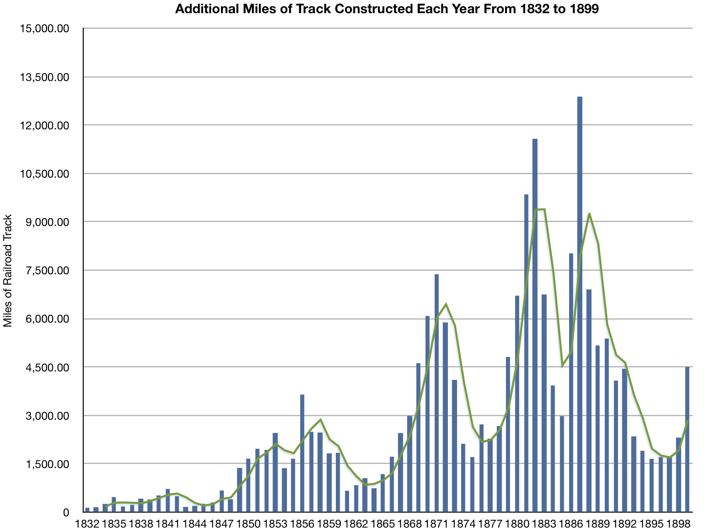 This is a chart which displays the total additional miles of track added at the end of the indicated calendar year between the dates of 1832 and 1899.